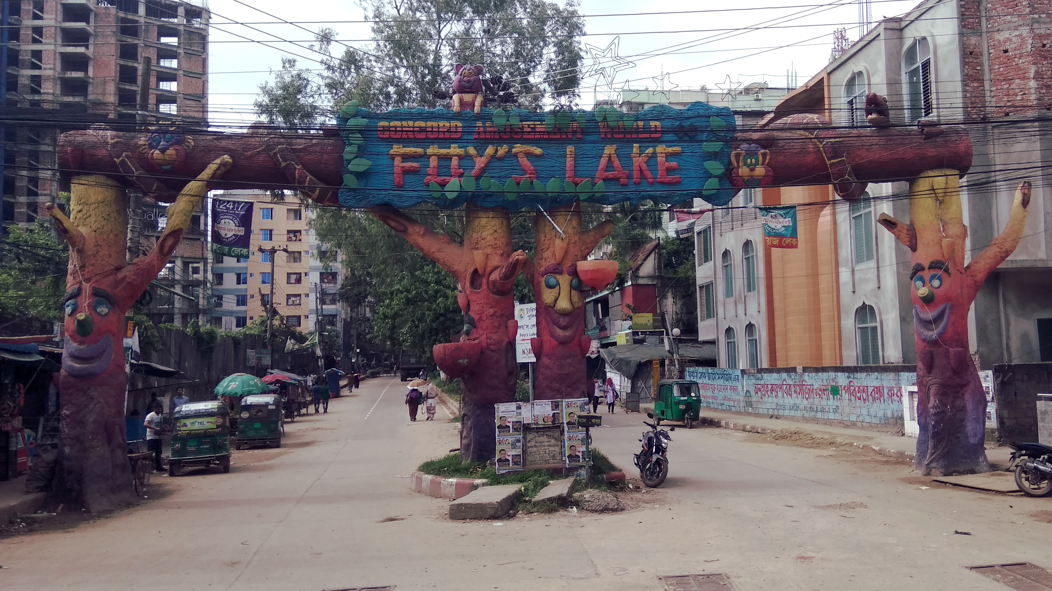 This is the of Foy's Lake Gate.